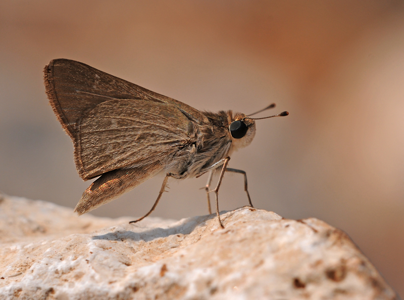 Wing underside view of a male "Pigmy Skipper". Erdemli, Mersin - Turkey. 10 m.